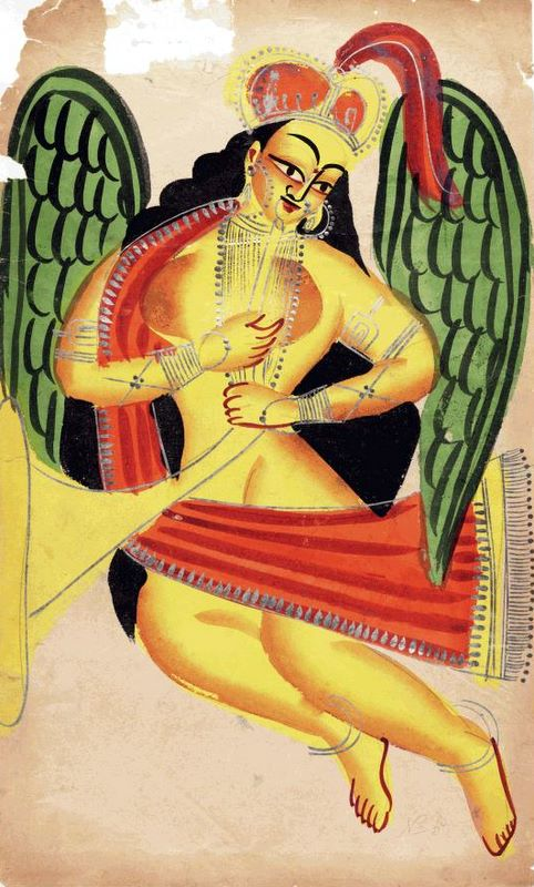 "Digitized Kalighat paintings from 19th century Calcutta, created as inexpensive souvenirs for Hindu pilgrims visiting the famous temple of Kali"